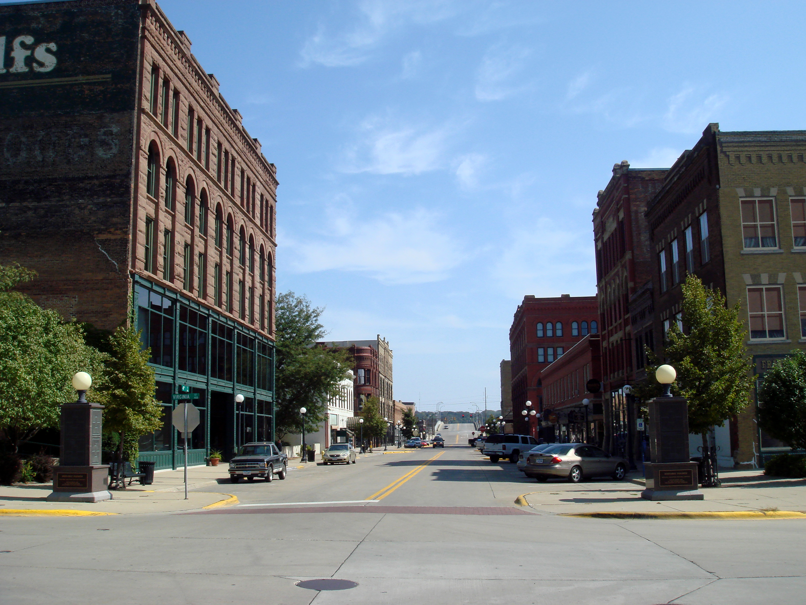 "Historic 4th Street" in downtown Sioux City, Iowa.